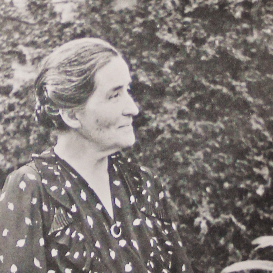 Beth Richards, a researcher in the Norah Fry Centre for Disability Studies, talks about the work and legacy of Norah Fry (1871 to 1960): "Norah, a member of the Fry family famed for its chocolate and cocoa, was born and educated in Bristol. Her family’s wealth meant she never needed paid employment, but throughout her life she committed herself to work on behalf of those less fortunate than herself. "After completing her studies at Cambridge University and an apprenticeship with the Charity Organisation Society - a home-visiting service that formed the basis for modern social work – Norah focused her attention on improving the lives of people with learning disabilities. "She also had a very close relationship with the University, being a member of Council for over 50 years. When she died in 1960, Norah left money to the University to be used for teaching and for finding out more about the needs of people with learning disabilities and mental illnesses. "The Norah Fry Research Centre was created in 1988 and has pursued a programme of research which has helped us to see people with learning disabilities in a new light and challenge our preconceptions about their identity. "People with learning disabilities, like myself, now work as co-researchers in some studies – something which would have been unimaginable 100 years ago. The centre makes a positive difference in the lives of disabled children, young people and adults. We hope Norah would have approved of what we have achieved since she handed down the challenge." Portrait by Jessica Augarde Photography.